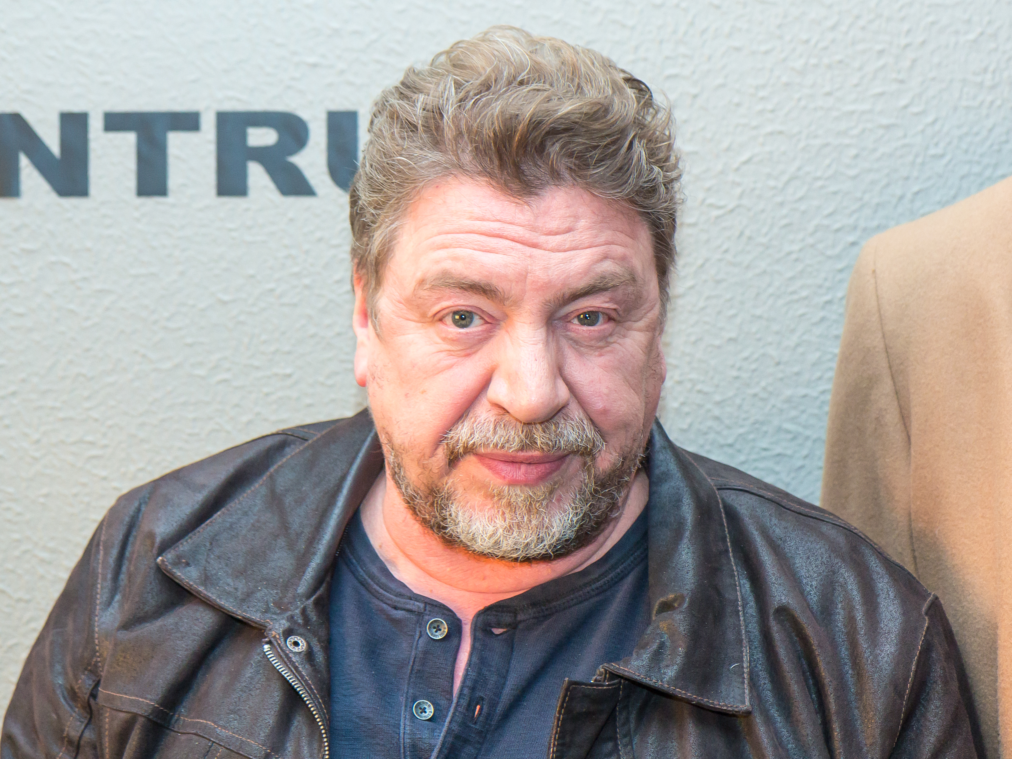 Dreharbeiten zu „Schnitzel XXL“ Foto: Armin Rohde (Rolle: Ex-Tierpfleger Günther)